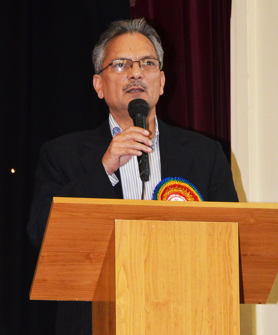 Baburam Bhattarai performing speech in Sydney